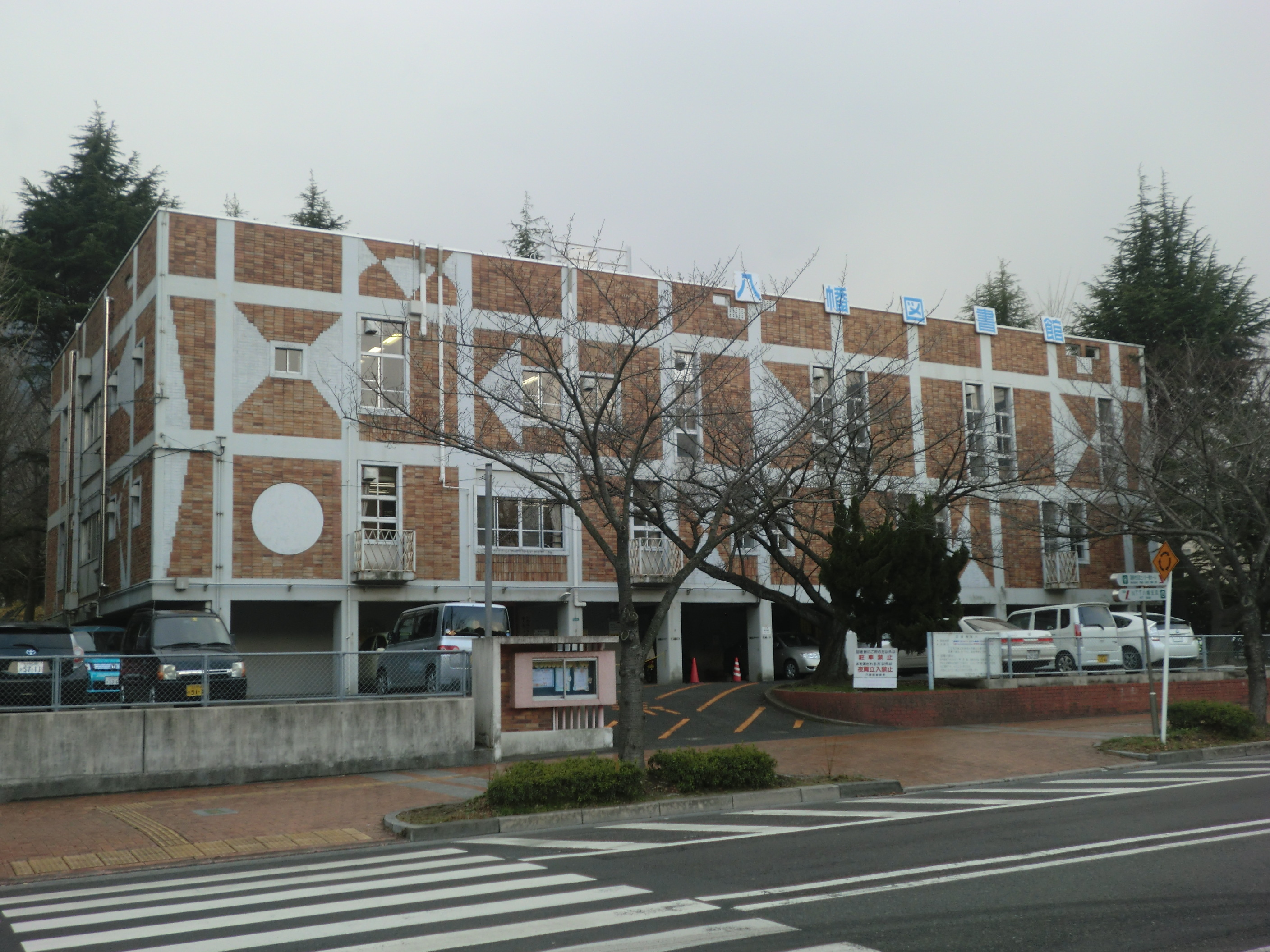 Yahata Library at Kitakyushu, Fukuoka, Japan.